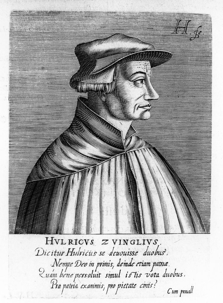 Ulrich Zwingli` book portrait from "Praestantium aliquot Theologorum qui Rom. Antichristum praecipue oppugnarunt, Effigies; quibus addita Elogia, Librorumque Catalogi". by Jacobus VERHEIDEN. .Pp. 226. Ex officina B.C. Nieulandii: Halæ Comitis, 1602. Museum im Melanchthonhaus Bretten.